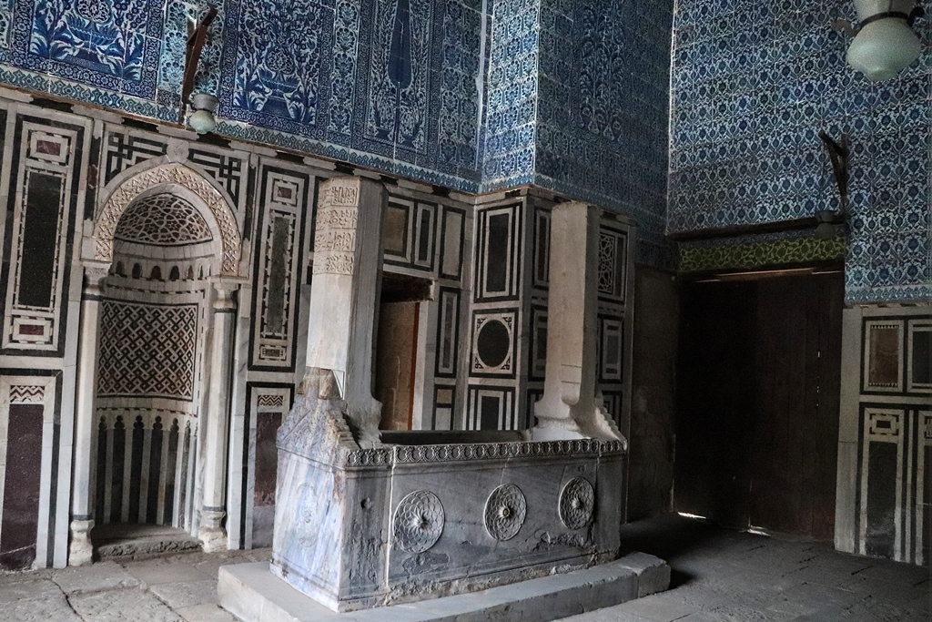 Cairo: Ibrahim Agha Mustahfazan Mausoleum